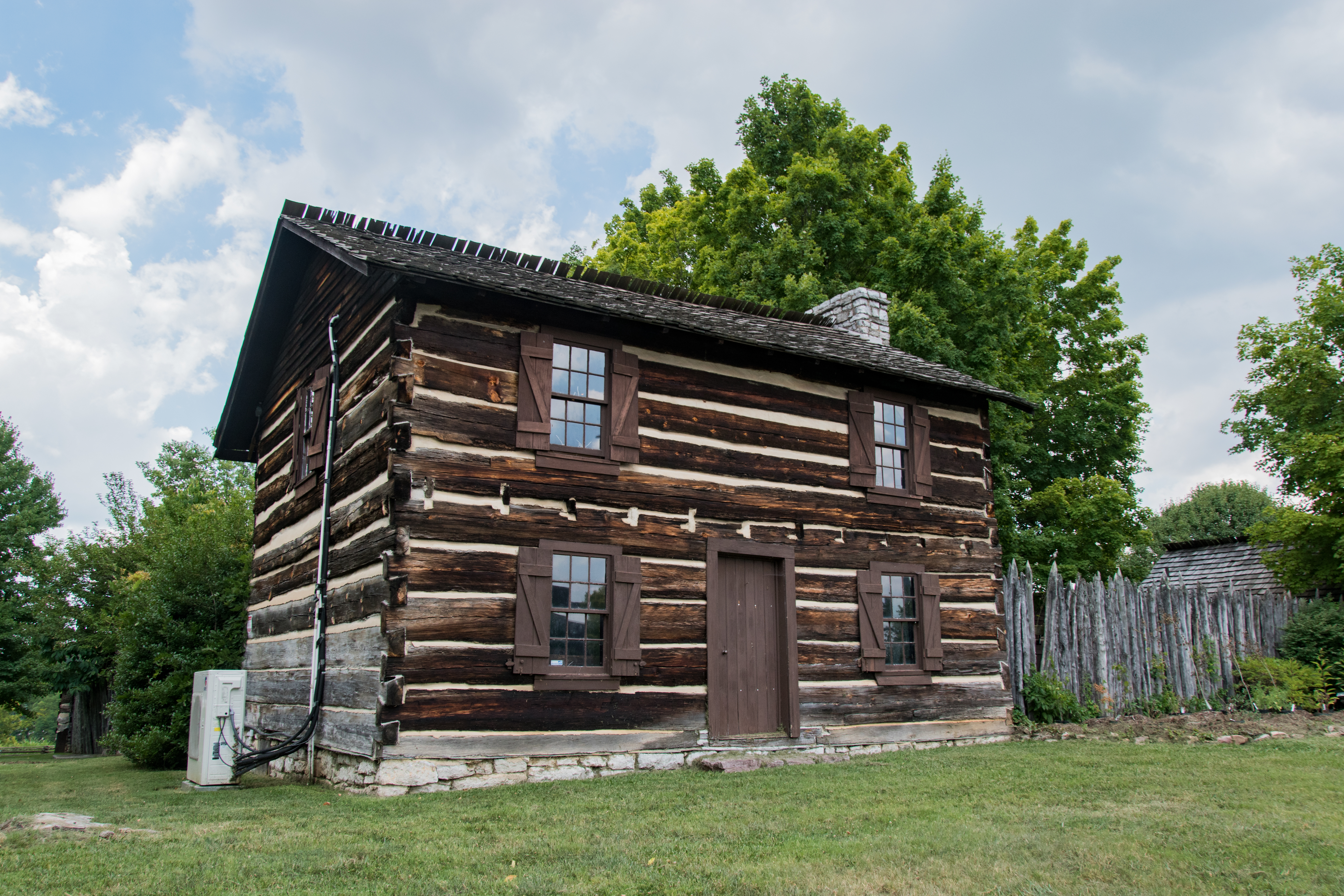 James White's Fort, Knoxville, Tennessee, July 9, 2019. Main house (SW corner).